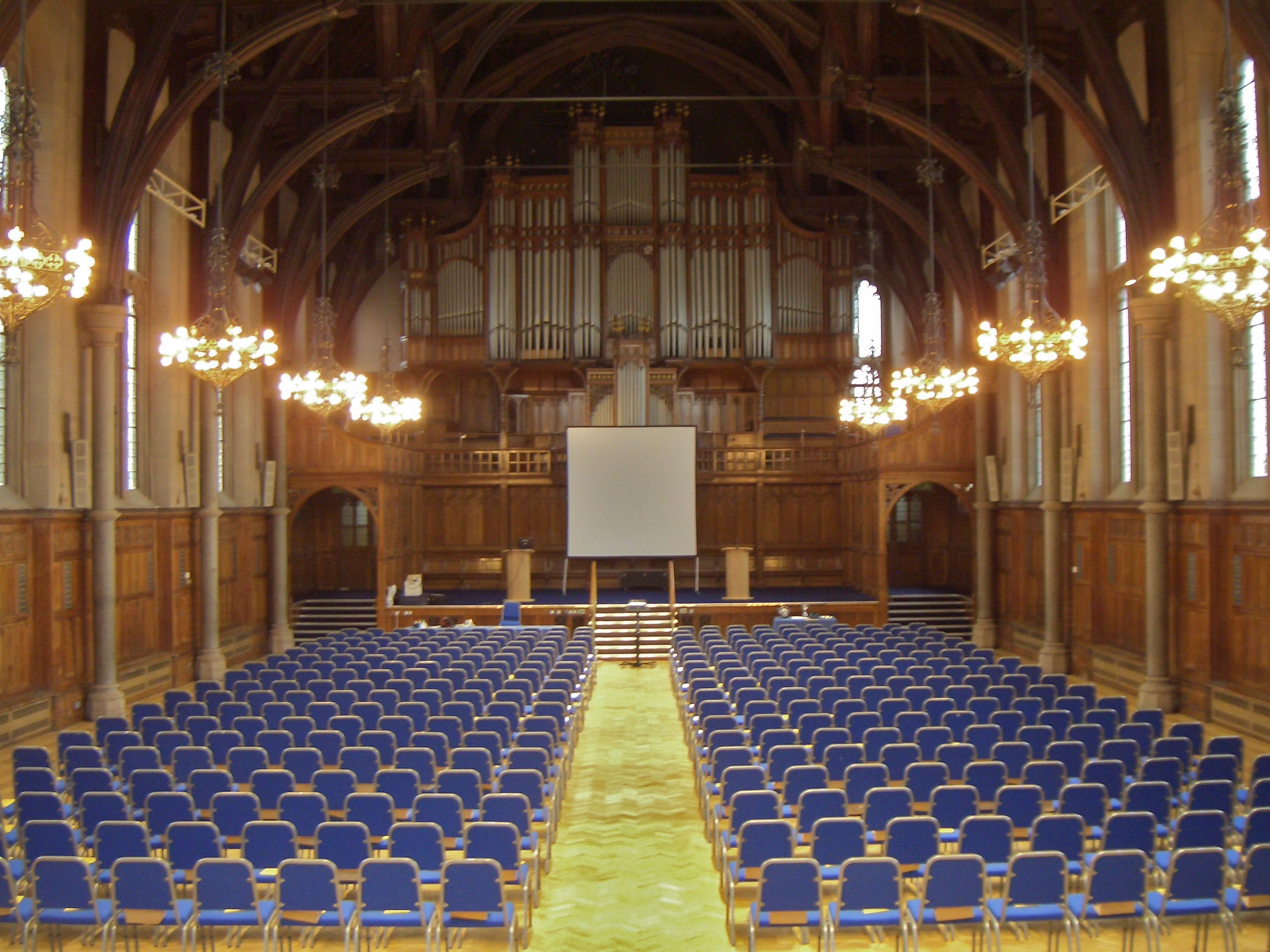 The inside of the Whitworth Hall at the University of Manchester, Manchester, England.